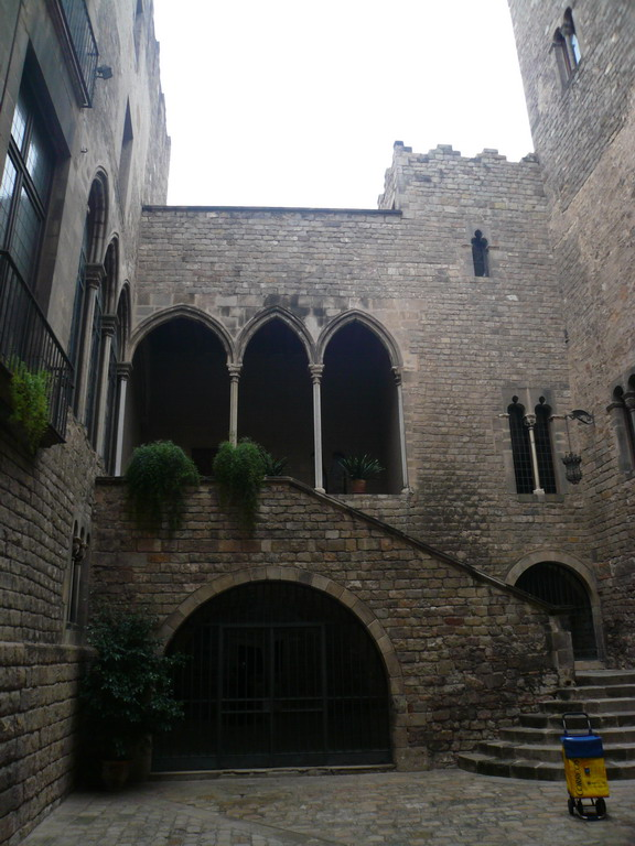 Palau Requesens, Barcelona.